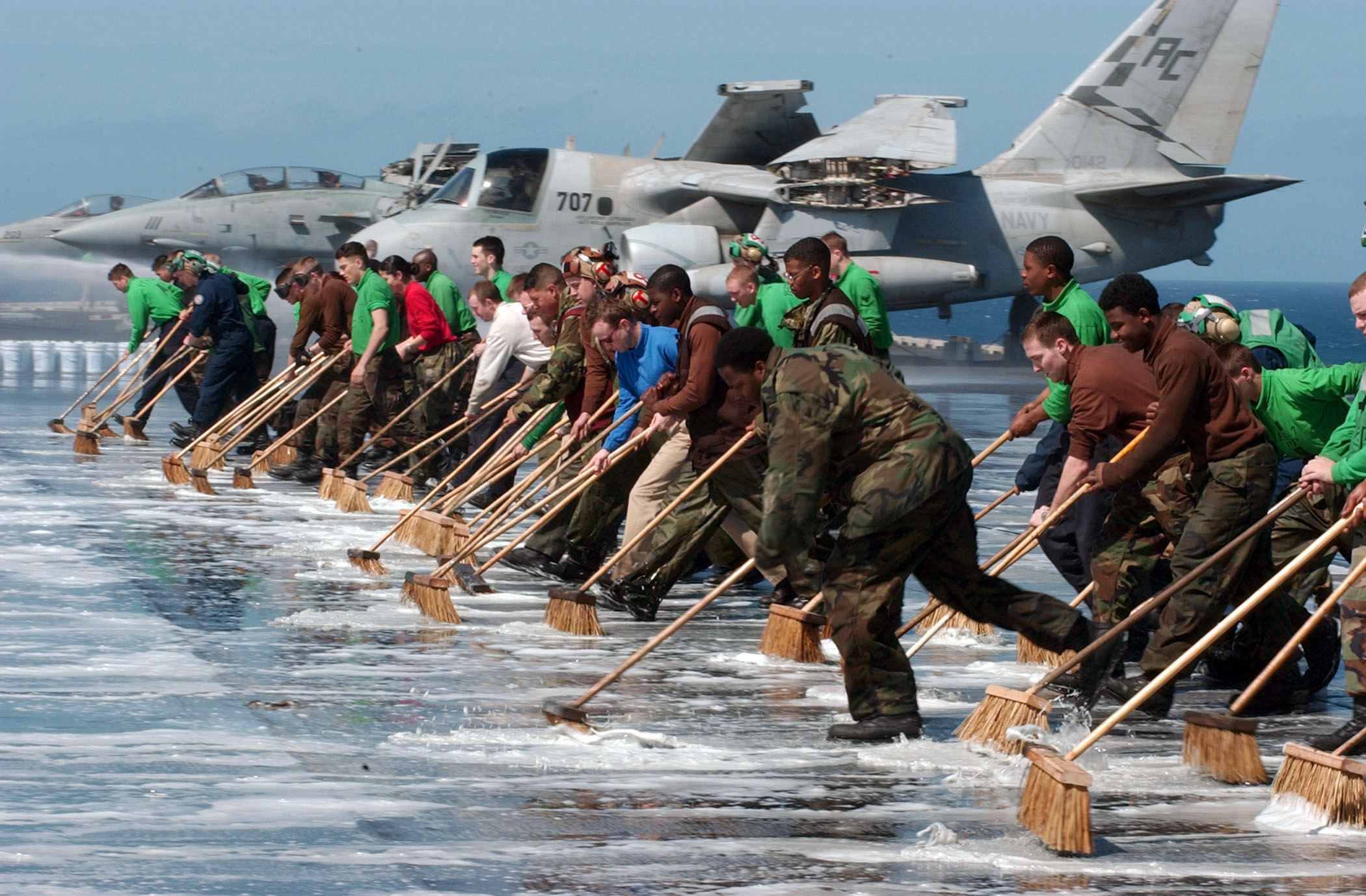 At sea aboard USS Harry S. Truman (CVN 75) Apr. 19, 2003 - Sailors aboard the nuclear powered aircraft carrier USS Harry S. Truman (CVN 75) participate in a flight deck scrub-down exercise (SCRUBEX). SCRUBEX’s are a very important exercise, which reduce fluids, grease and dirt that can make the flight deck and catwalks extremely slippery and can cause aircraft and personnel to skid or slip. Truman and Carrier Air Wing Three (CVW-3) are currently on a deployment in support of Operation Iraqi Freedom. Operation Iraqi Freedom is the multinational coalition effort to liberate the Iraqi people, eliminate Iraq's weapons of mass destruction, and end the regime of Saddam Hussein. U.S. Navy photo by Photographer's Mate Airman Derrick M. Snyder. (RELEASED)